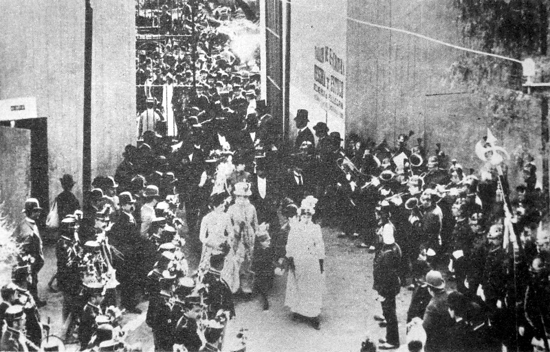 Gobernor of Santa Fe Province (Argentina), José Gálvez, during the inauguration of the first Cattle Exhibition held in the city of Rosario.